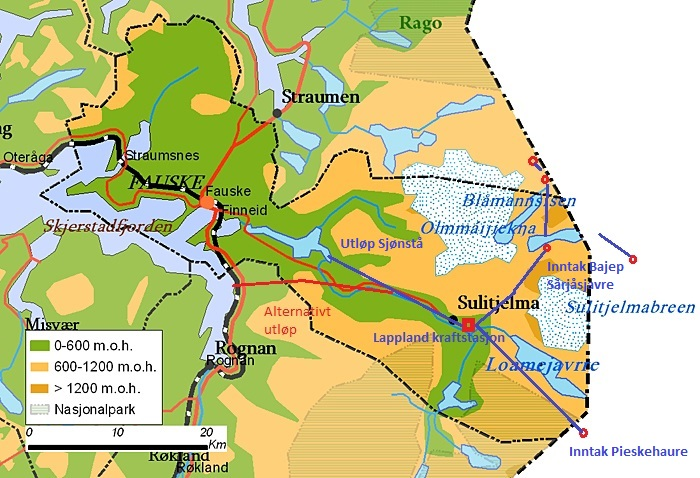 Map of Fauske municipality, Norway. Plan for Lappland kraftverk.